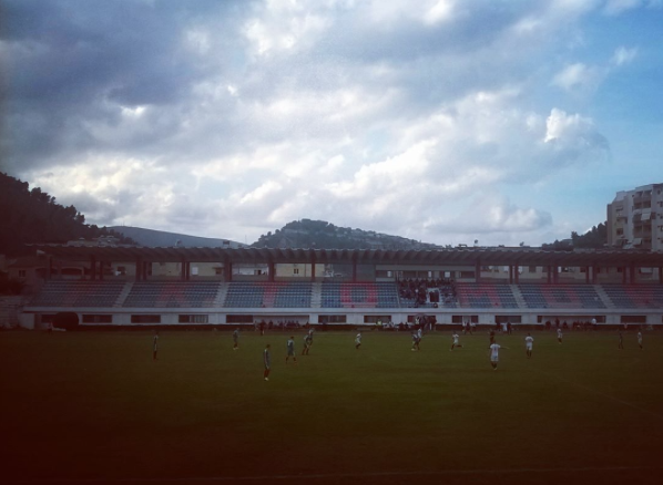 Photo of the Tomori Stadium in Berat, Albania in 2015.